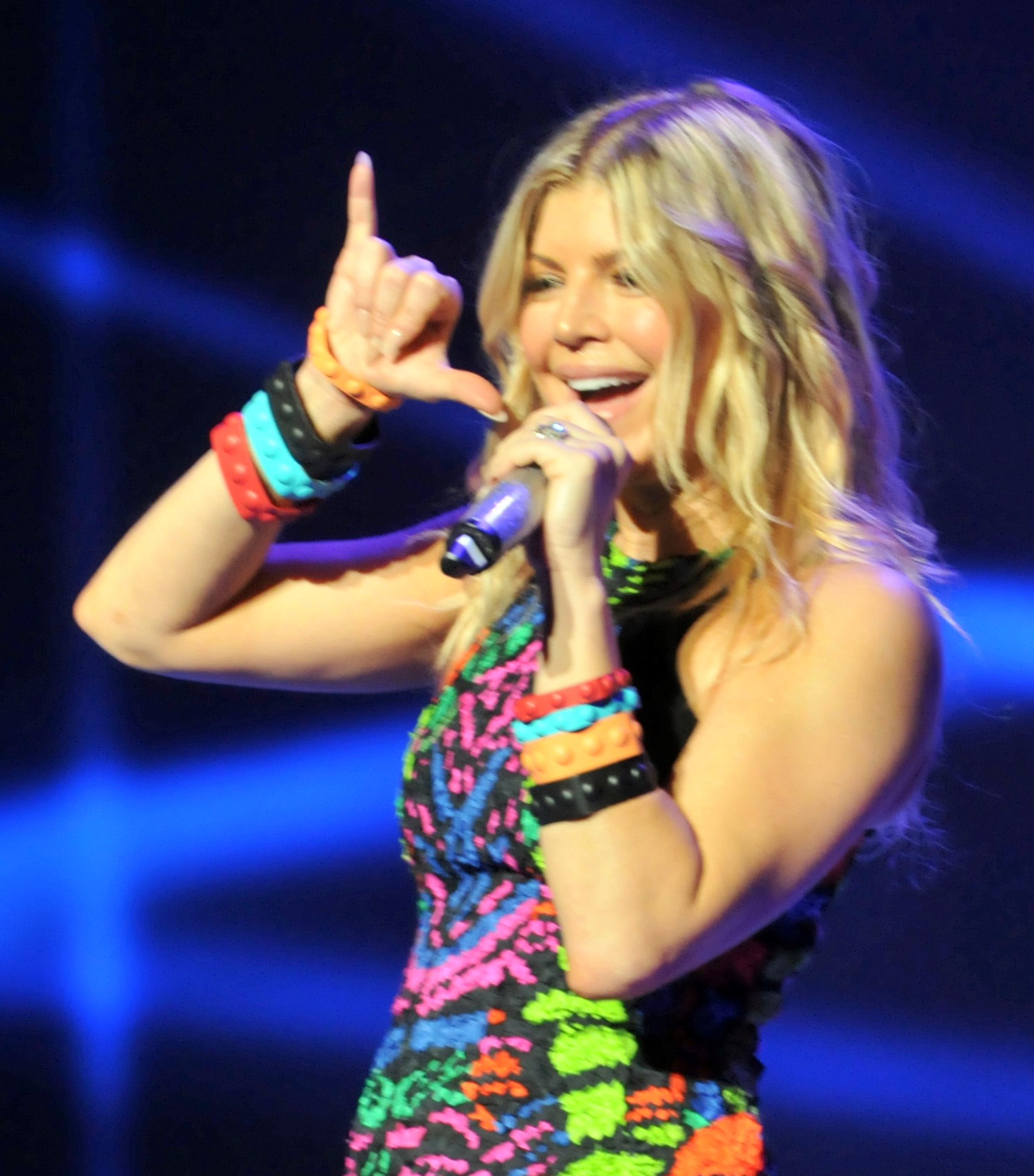 Fergie performs on stage and sings a song for Walmart associates from around the globe at the 2011 Walmart Shareholders Meeting.